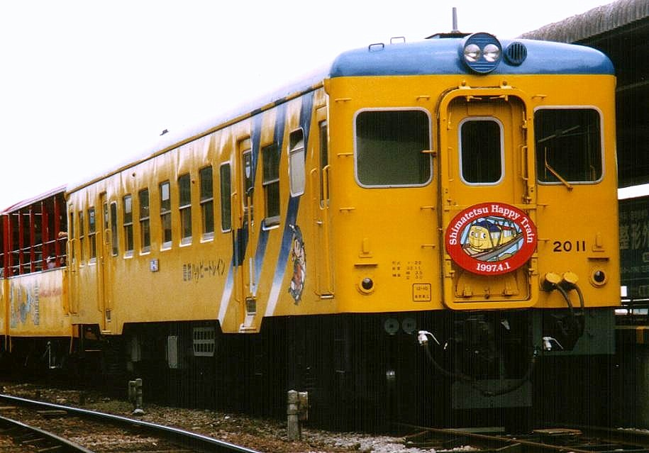 Shimabara Railway Kiha 2011 DMU at Shimabara Station